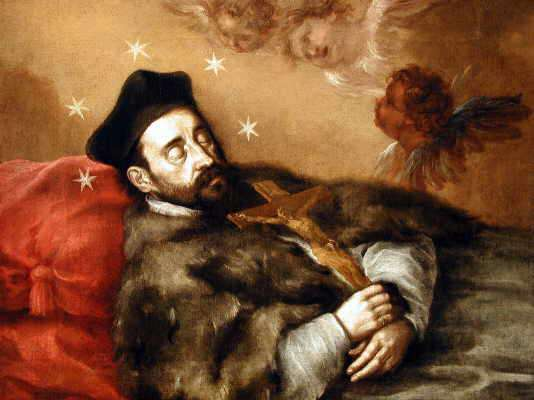 so-called Ledvinka vera effigies of St John of Nepomuk